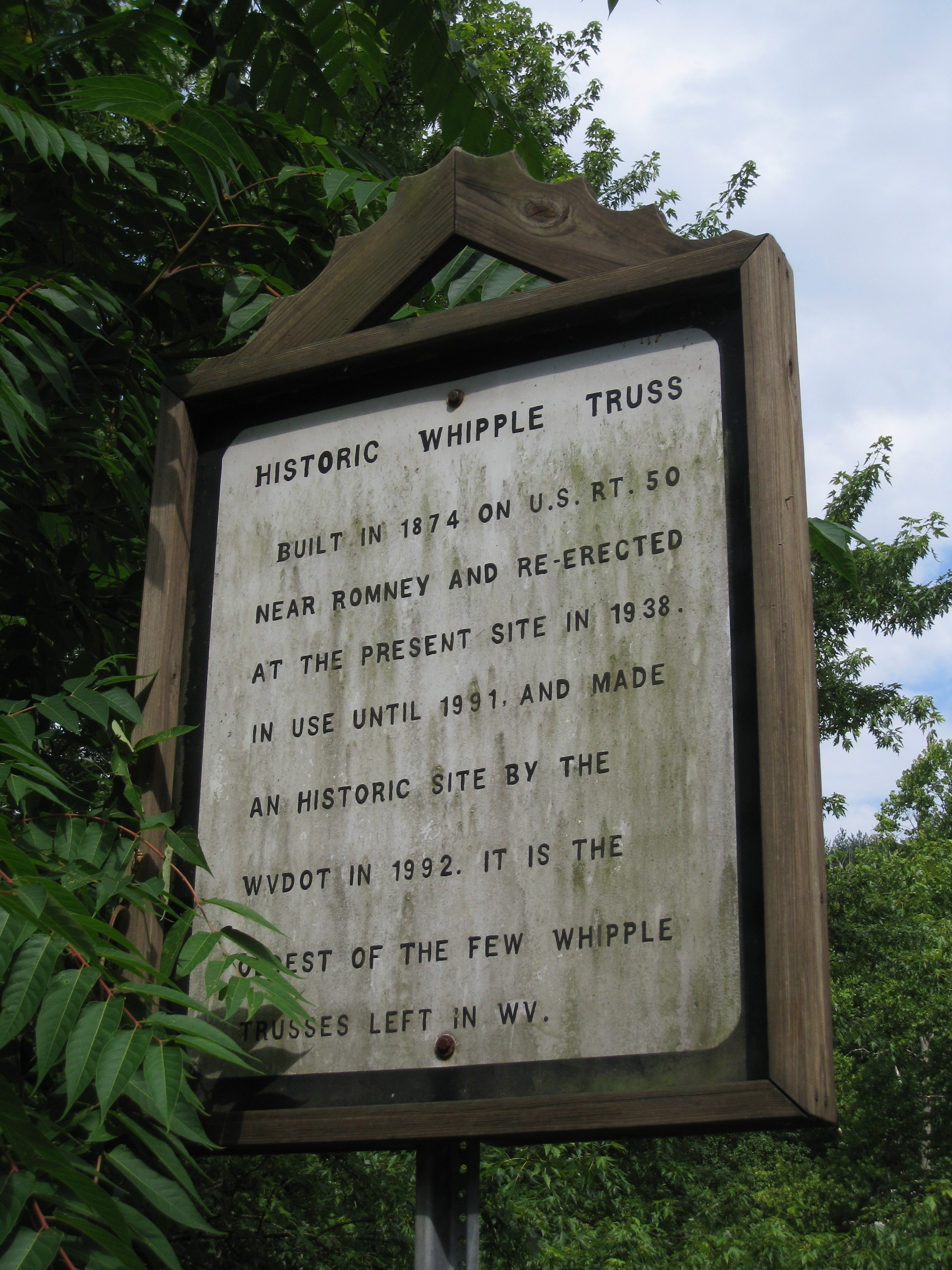 The Old Whipple Truss is an 1874 truss bridge on the Cacapon River at Capon Springs, West Virginia, United States. The Whipple Truss was originally constructed across the South Branch Potomac River near Romney and was re-erected at its present site in 1938 where it was in use until 1991.